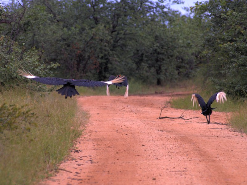 Three Southern Ground Hornbills in Flight near Shimuwini, Kruger National Park, South Africa